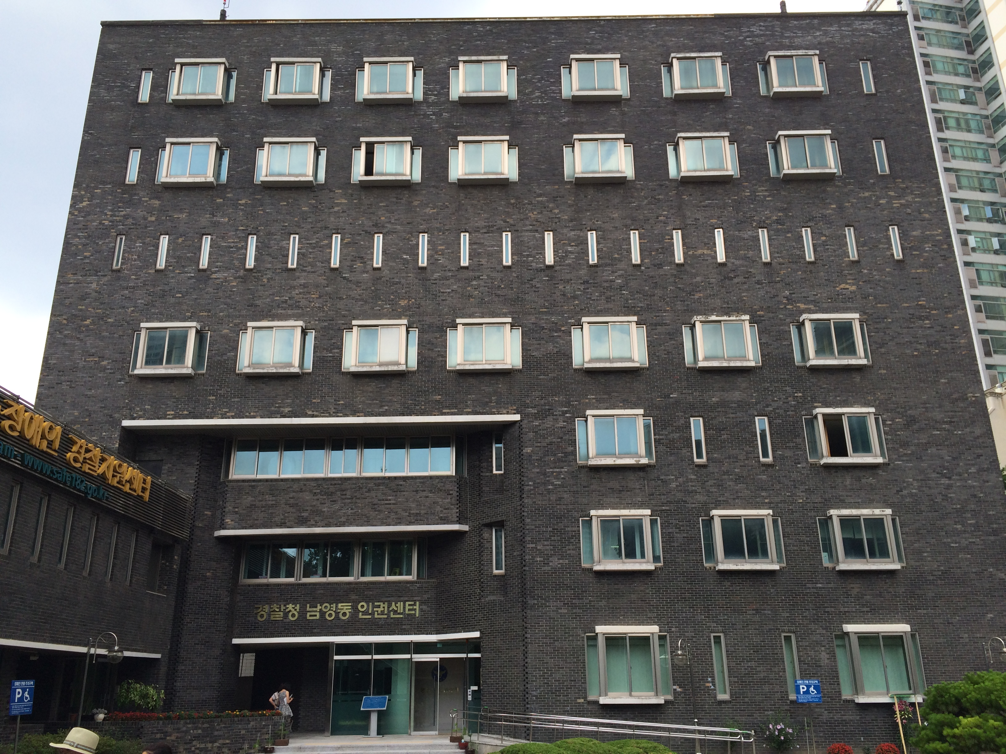 Namyeongdong Human Right Center of Korean National Police Agency (former Namyeongdong Deagong Busil which was built for anti-communism investigation, but used to torture citizen who acted democratic movement at dictatorship period of Korean history)